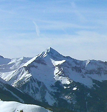 This image appeared on English Wikipedia's Main Page in the Did you know? column on 30 December 2005 (see archives). view of wilson peak. Photographed by me, User Debivort, December 2005